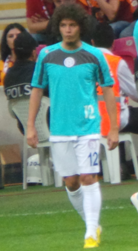 Oğuzhan Berber rizespor